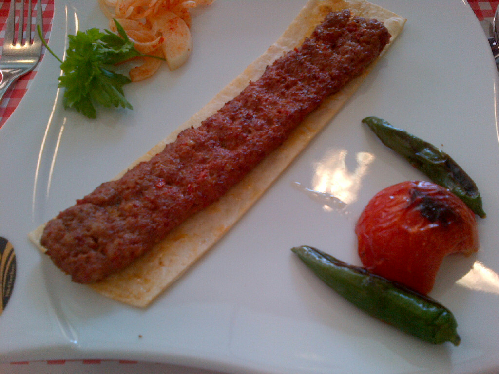 Urfa kebap in a kebap restaurant ("kebapçı") in Ankara, Turkey. Notice the amountt of "pul biber" (chopped Urfa red pepper) in the meat. It is a less "hot" kebap than he Adana kebap.